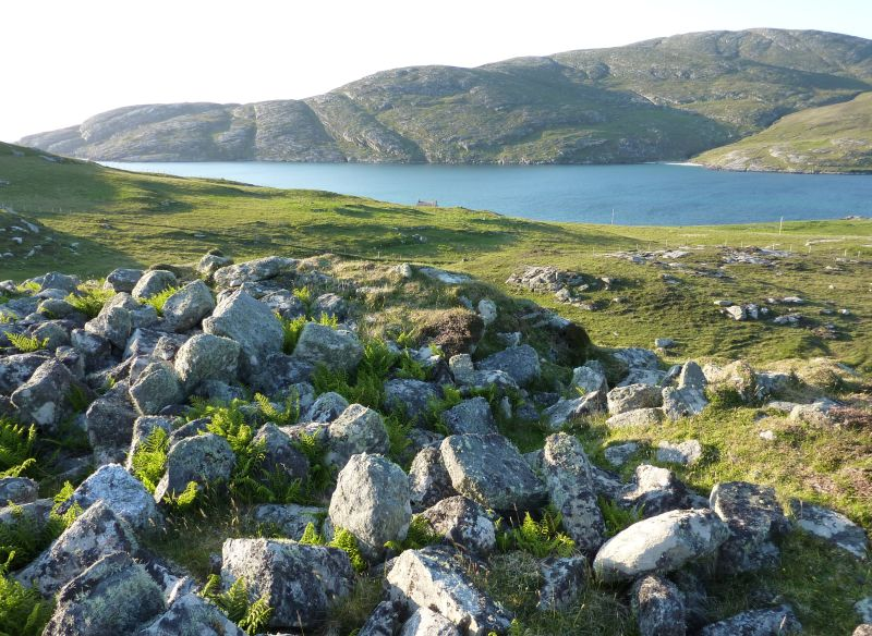 Dun a' Chaolais, a broch on Vatersay, Outer Hebrides, Scotland